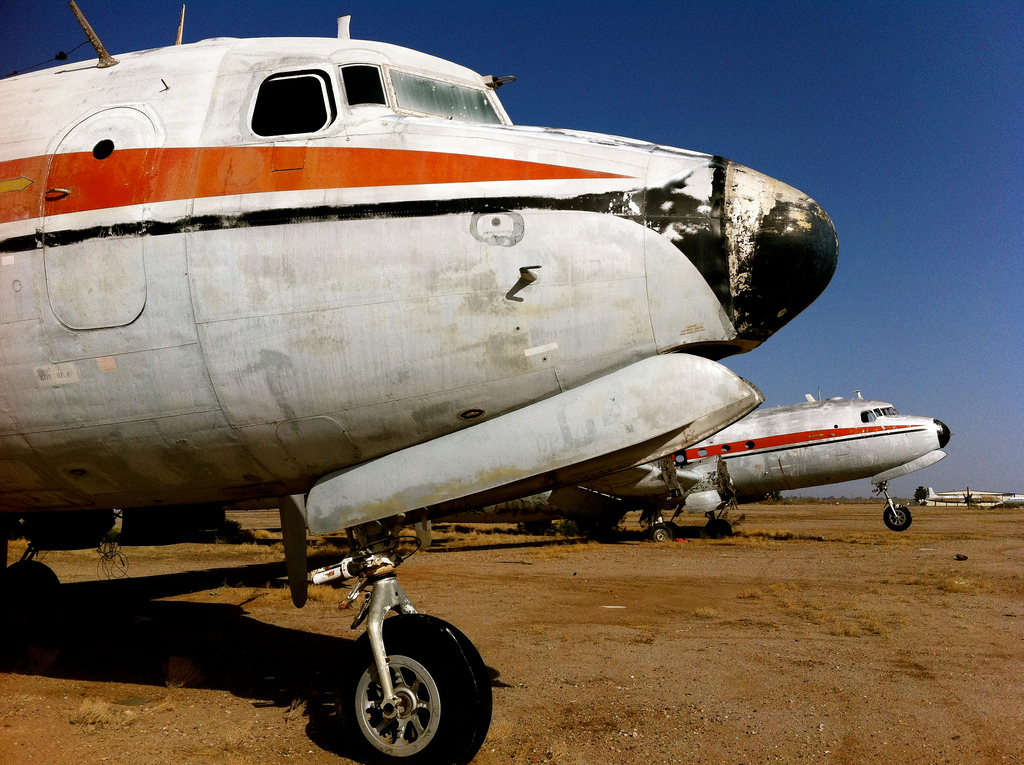 Creative Commons license; photographer: Ryan Harvey